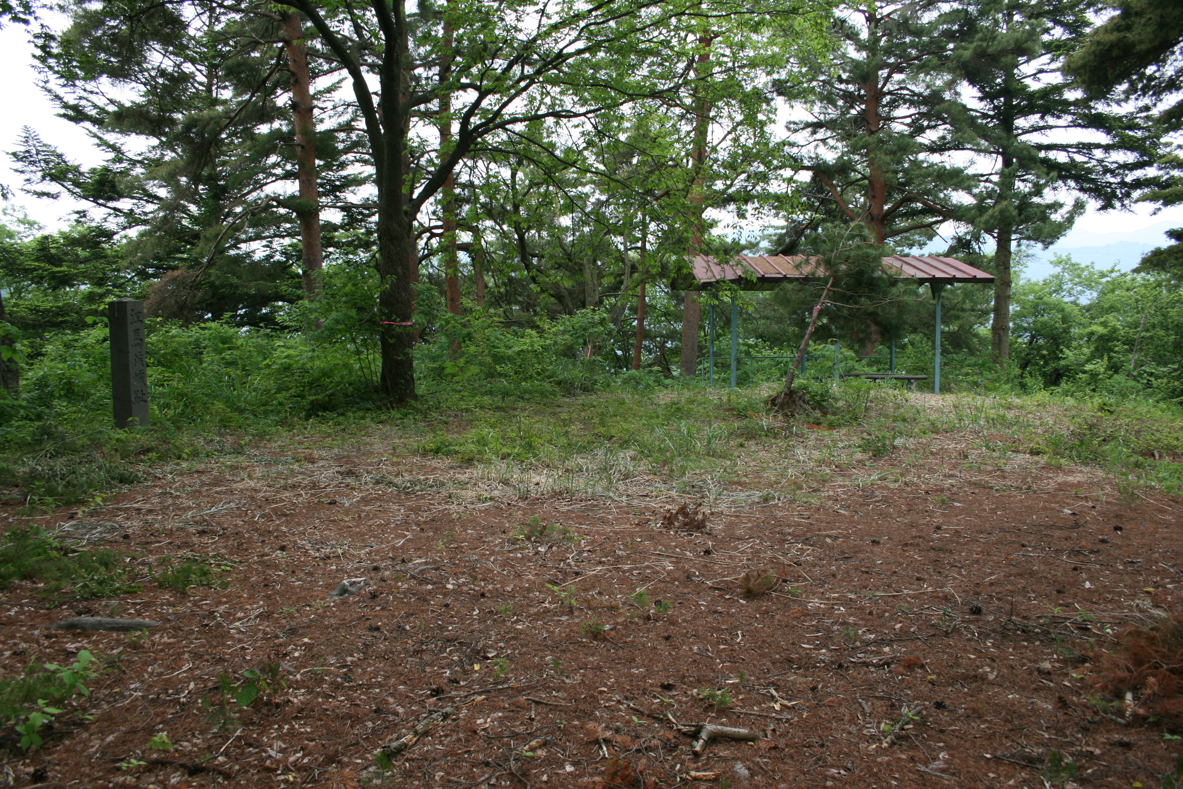 takaharasuwa_castle main enclosure